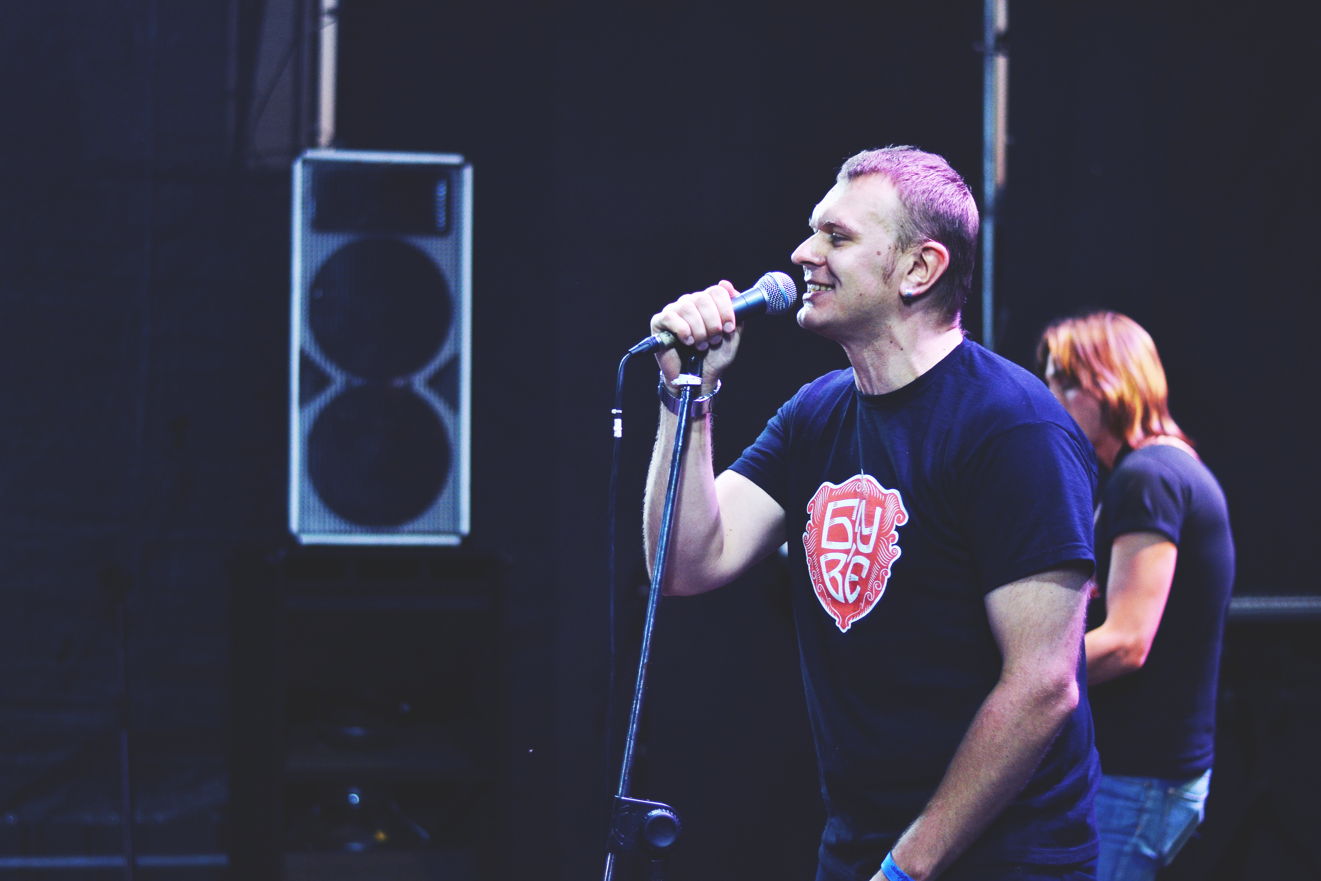 Ukrainian rock band